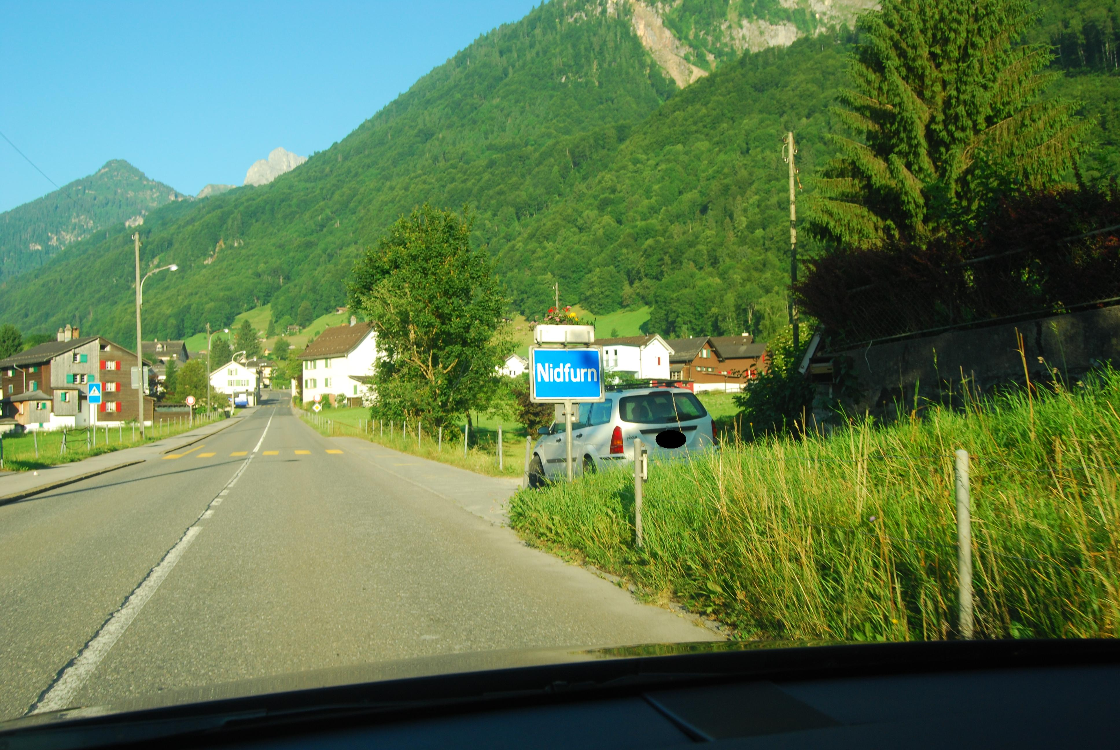 Village entry of Nidfurn, canton of Glarus, SwitzerlandEsperanto: Vilaĝeniro de Nidfurn, Kantono Glaruso, Svislando